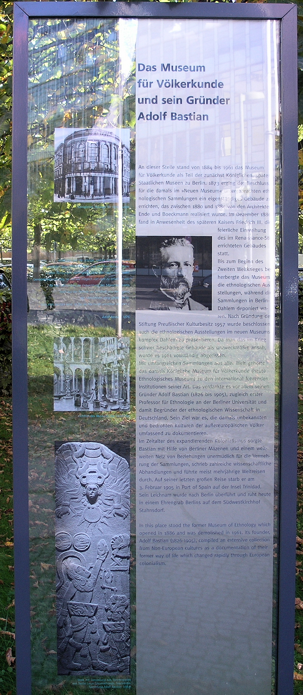 Memorial plaque, Adolf Bastian, Stresemannstraße 110, Berlin-Kreuzberg, Germany Koordinate:52°30′20″N 13°22′52″E / 52.50556°N 13.38111°E